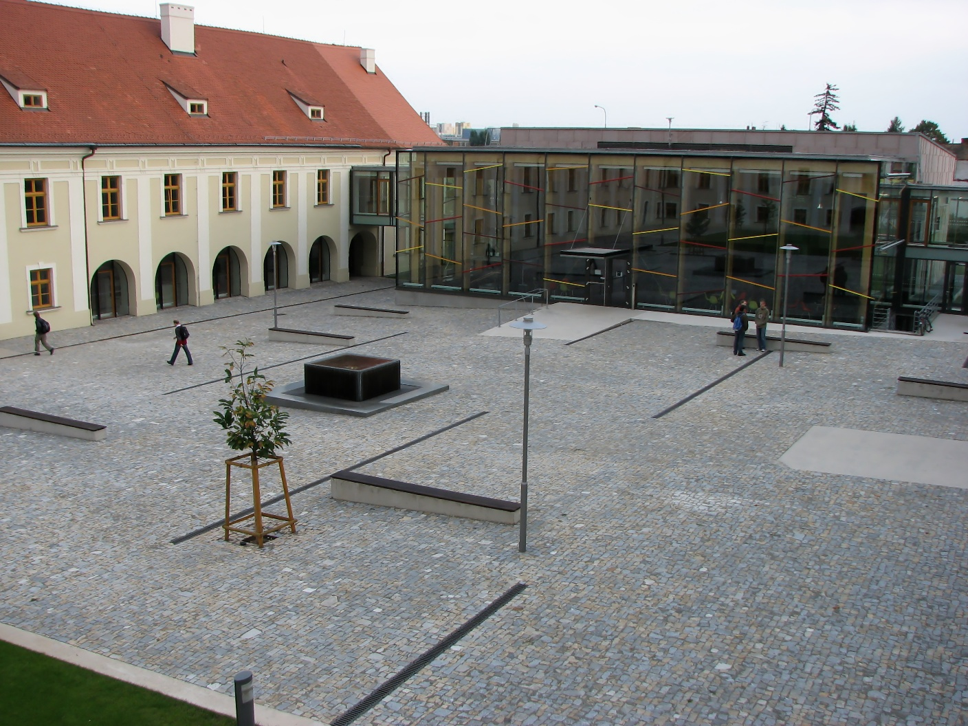 Brno University of Technology, Faculty of Information Technology (courtyard)